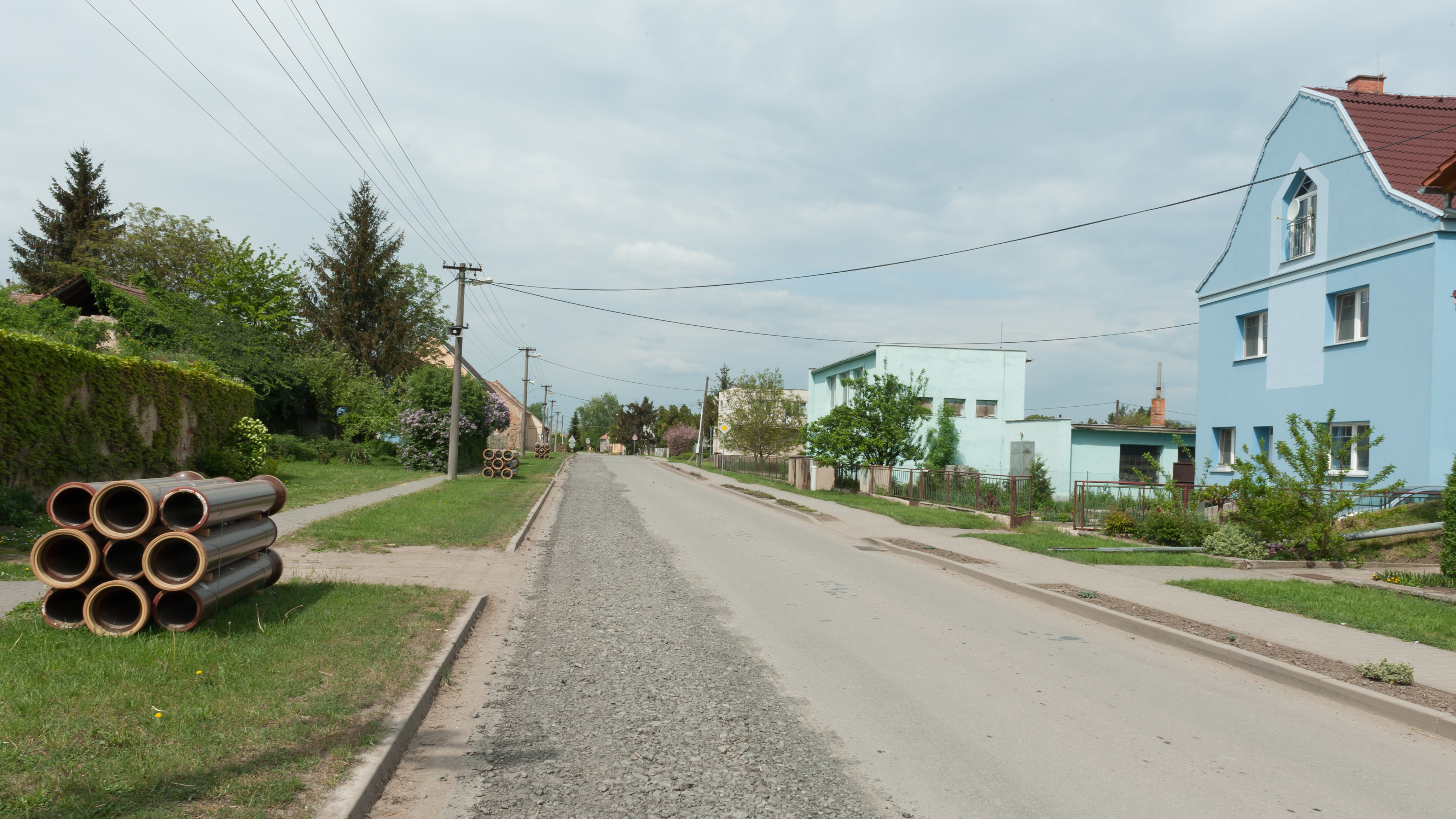 Wikitown Hustopeče: Damnice